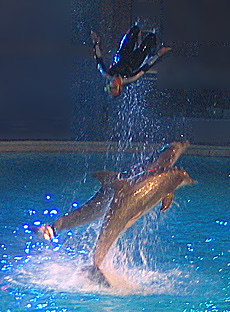 Dolphins pushing a human being up in the air. Scene from the dolphin show at the Kolmården dolphinarium, Kolmården Zoo, Sweden, 2004. Photo by Jerry Åman.